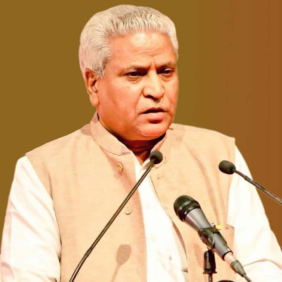 Photo of Ramlal Ji from RSS